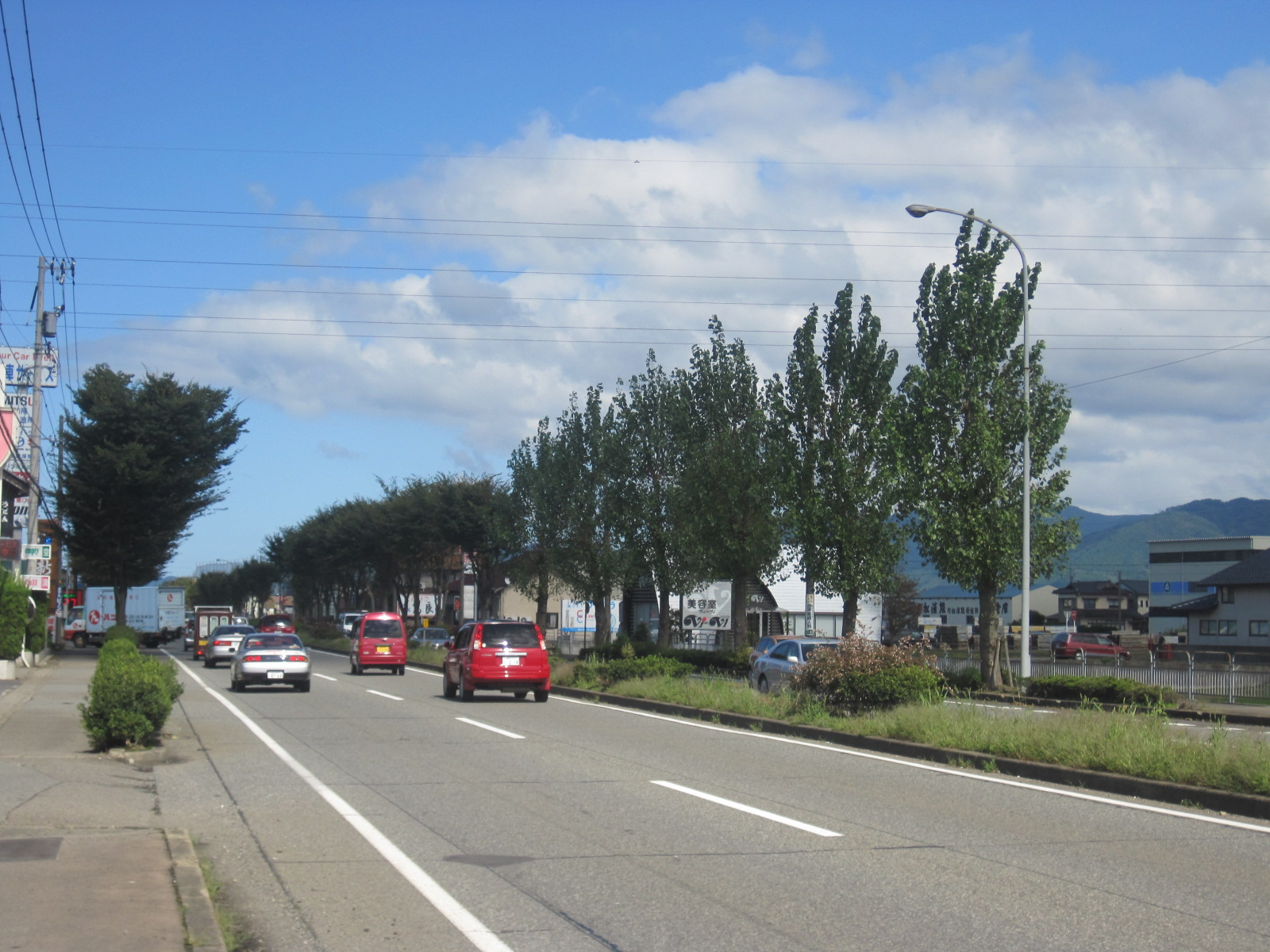 Fukui Bypass (Route 8, Japan)